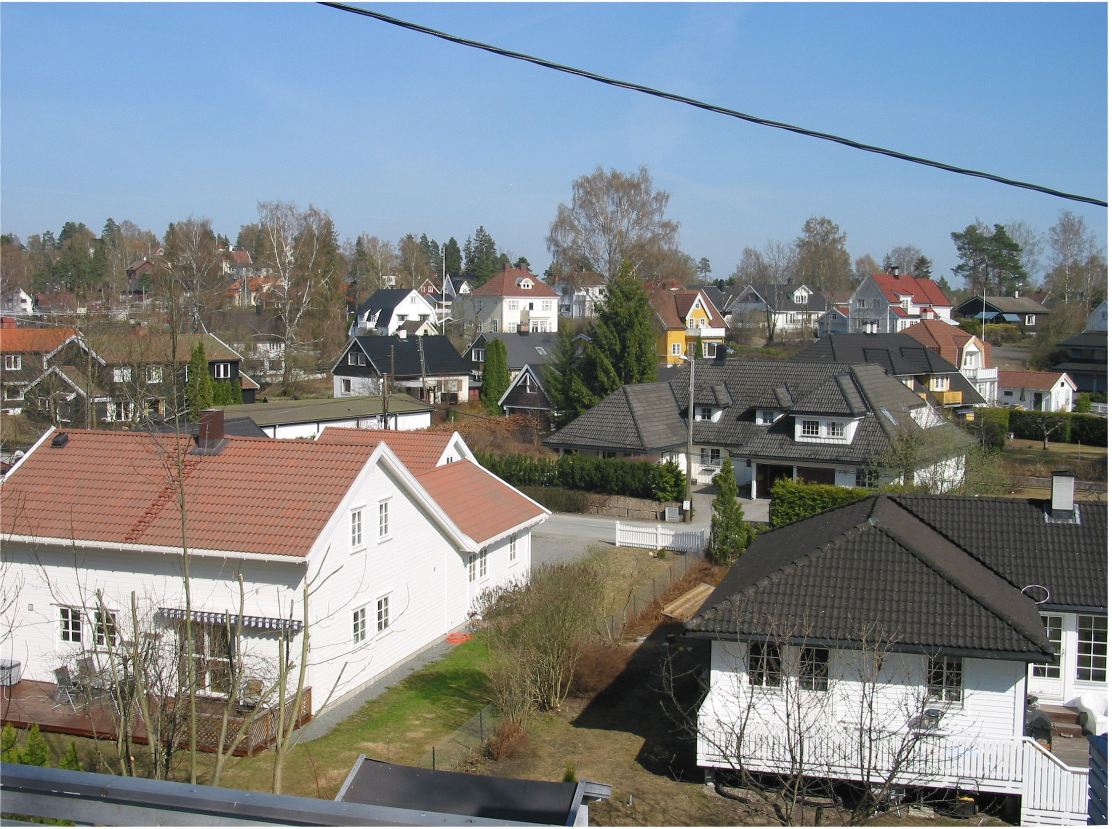 Housing at Ringstabekk, not far from the sports field. Seen from Ringstabekkveien.